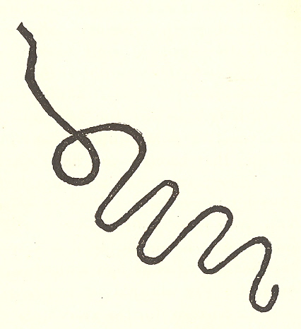 Image which appears at the start of Honore de Balzac's novel La Peau de chagrin